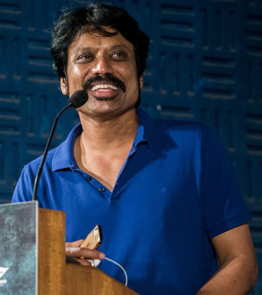 SJ Surya at Iraivi Press Meet